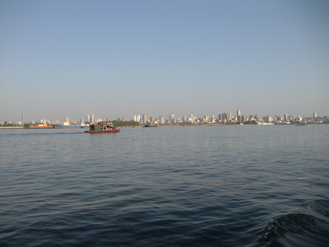 View of Asunción from Chaco'i